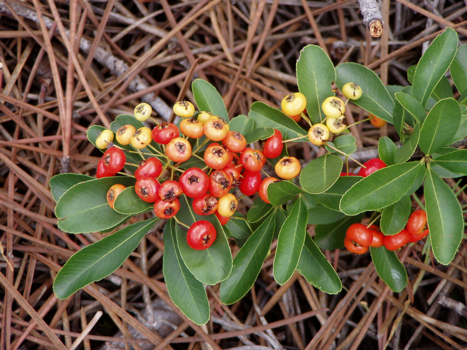 Scarlet Firethorn